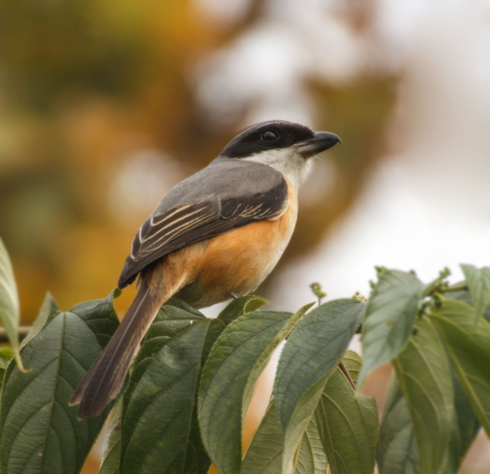 Among the shrikes, Grey-backed Shrike breed at the highest altitude. They are partial migrants, with some populations moving south in winter. They breed in summer from late May to early July. The nest is built in a bush and about 3 to 5 eggs are laid. The eggs are incubated by the female alone and incubation is begun even before the complete clutch is laid. The chicks hatch after 15–18 days and are taken care of by both the parents until the fledge after about two weeks.